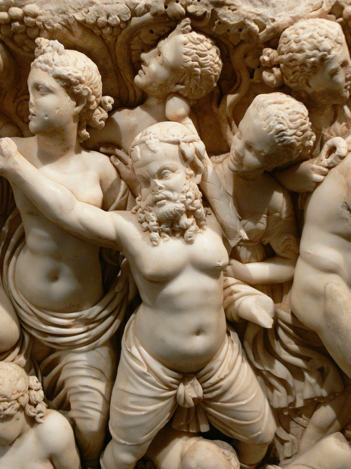 Antalya Archaeological Museum. Ancient Roman sarcophagus ( 2nd century AD ): Bacchanal - Silenus surrounded by dancing maenads.